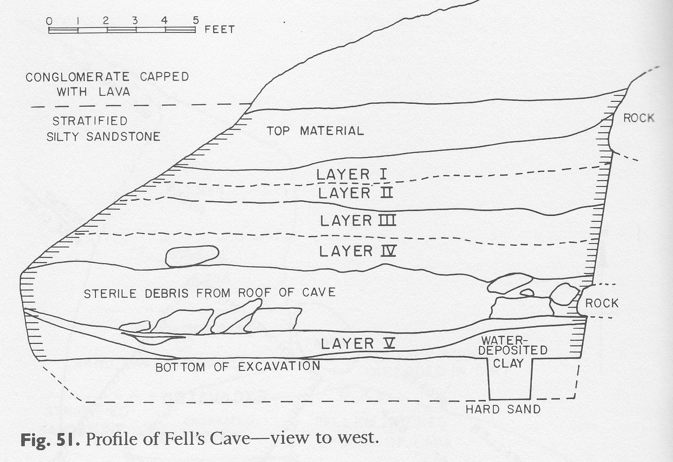 View of Cueva Fell's stratigraphic layers